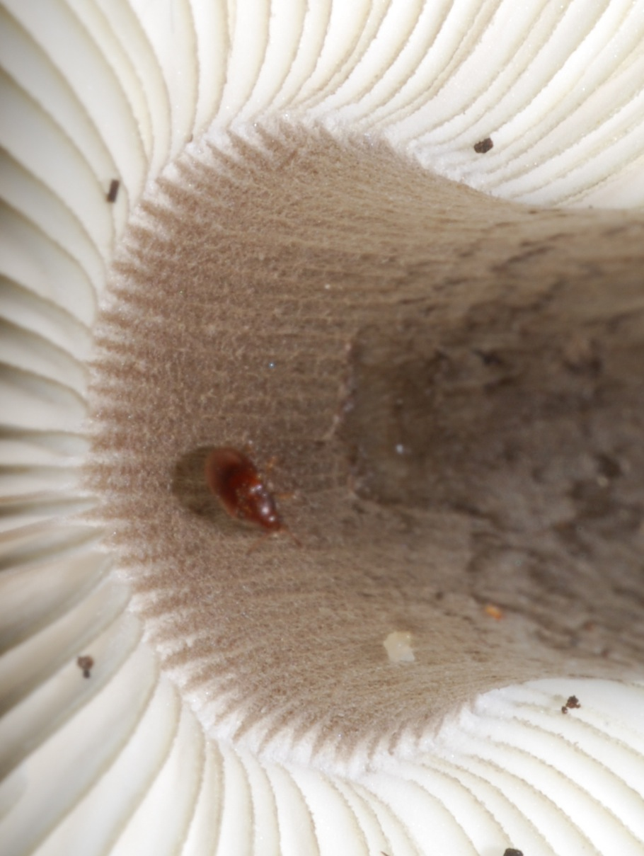 Closeup of the gill attachment of Amanita nothofagi G. Stev. Specimen photographed in Kaipara harbour, Auckland, New Zealand.